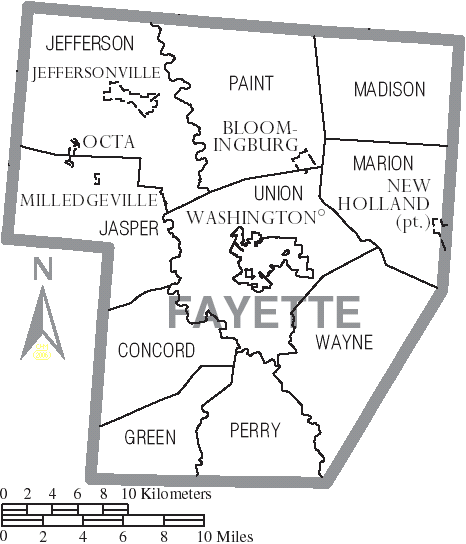 Map of Fayette County, Ohio, United States with township and municipal boundaries